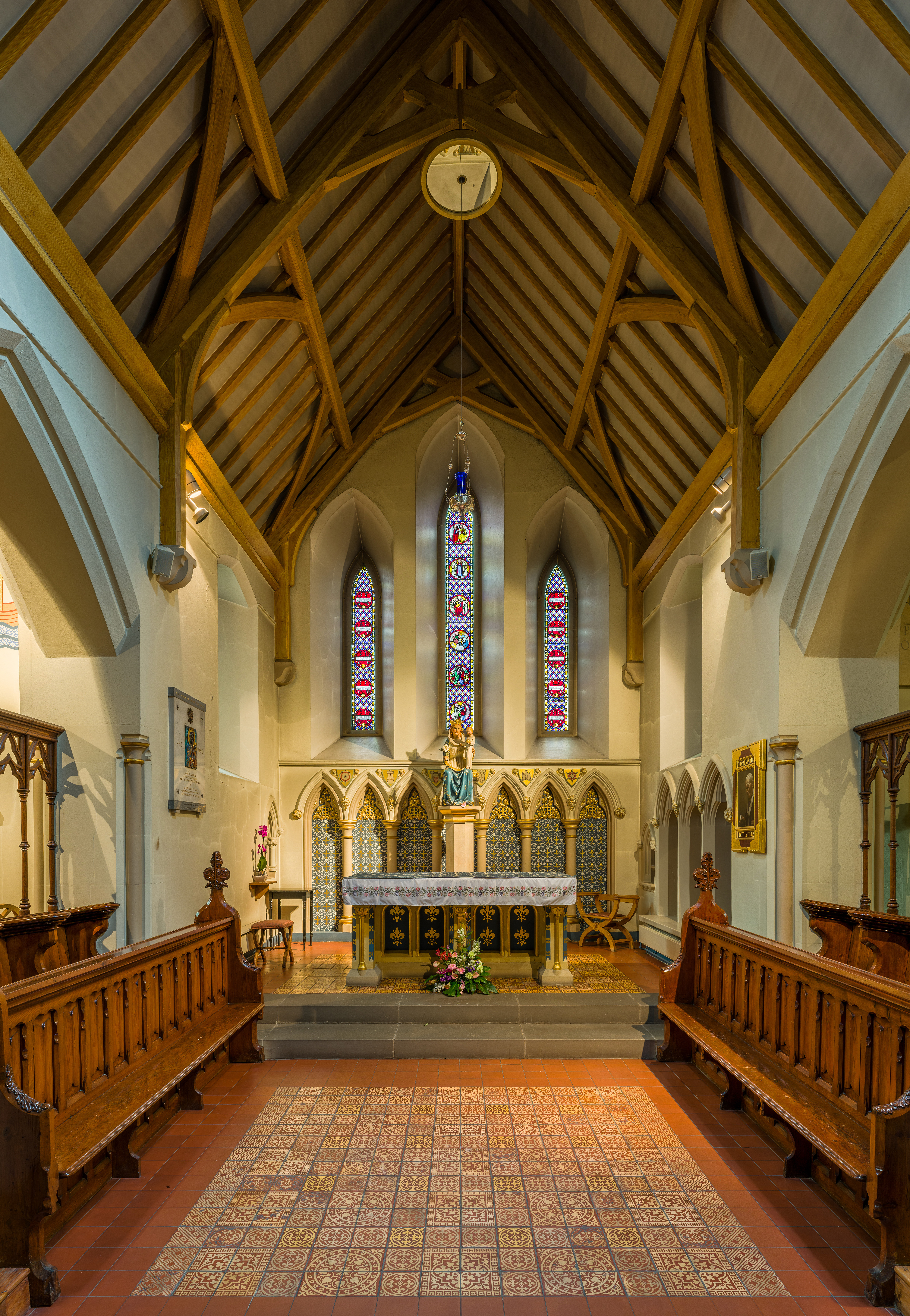 The lady chapel of Nottingham Cathedral in Nottinghamshire, England.